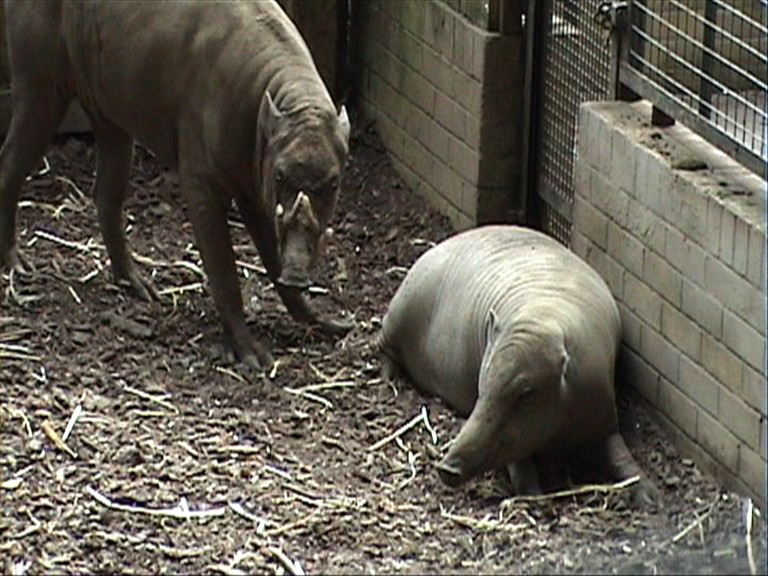 Male and female Babirusa in Edinburgh Zoo.